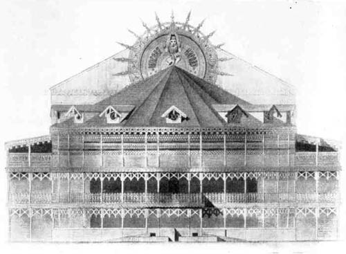 Viktor Hartmann (1834-1873). The People's Theater project in Moscow. Facade, 1872